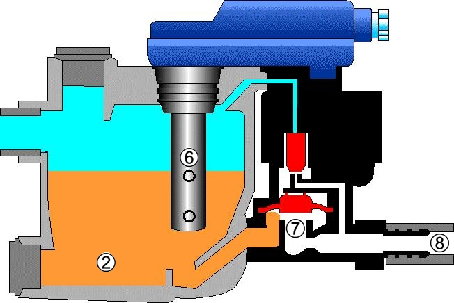 Electronic water drain - working principle